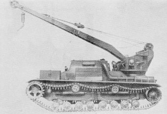 IJA Type 95 Crane Vehicle Ri-Ki